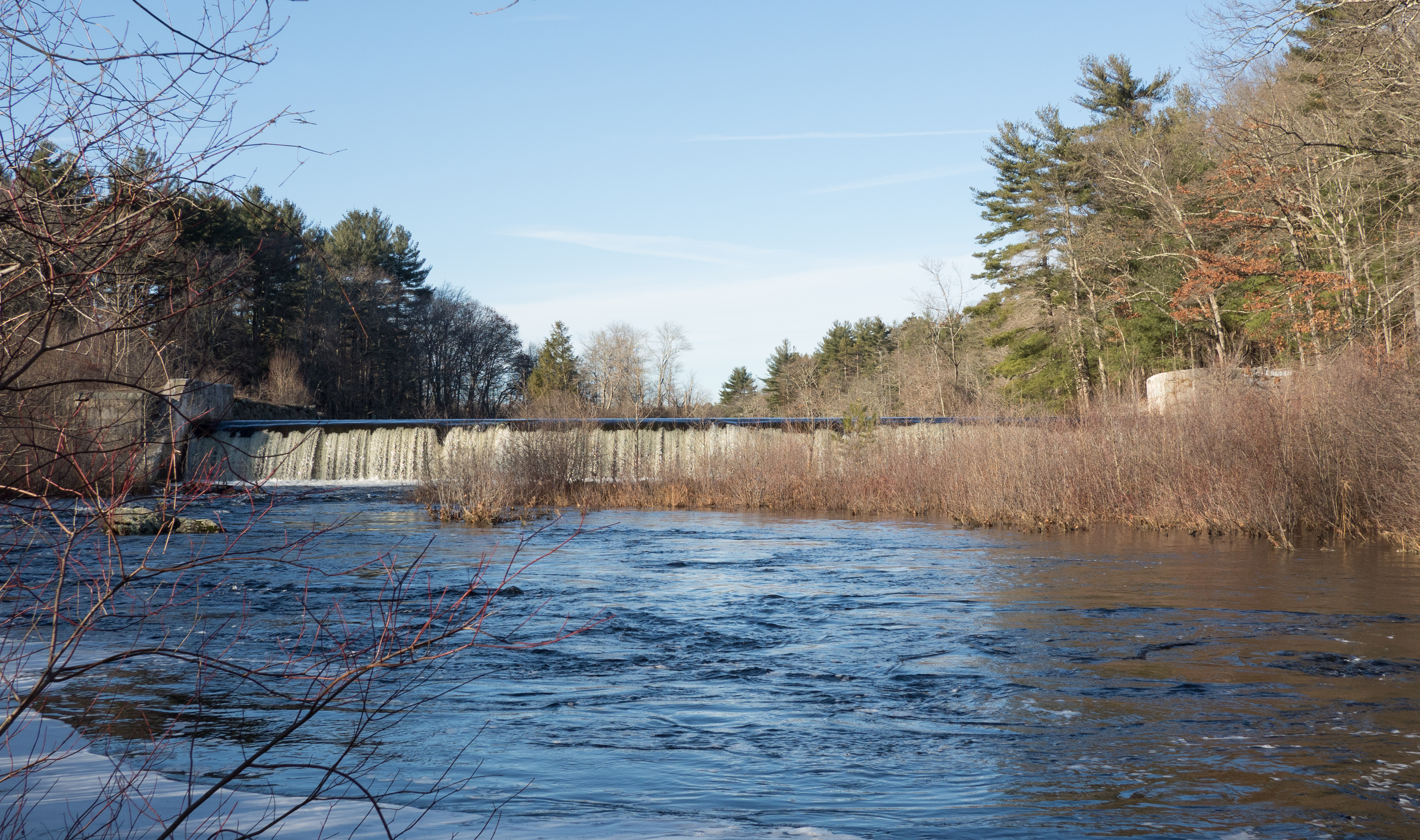 Hope Dam in Scituate, Rhode Island